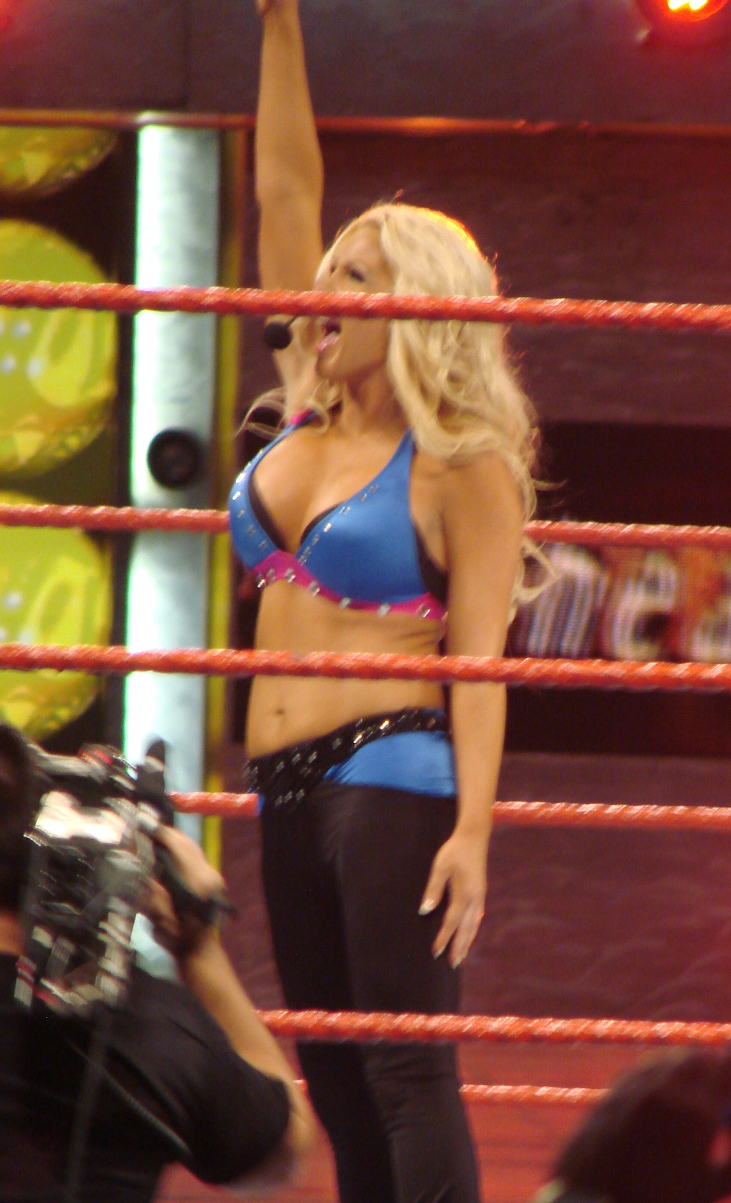 Jillian Hall. Bradley Center, Milwaukee, Wisconsin, September 24en:2007. Taken by me